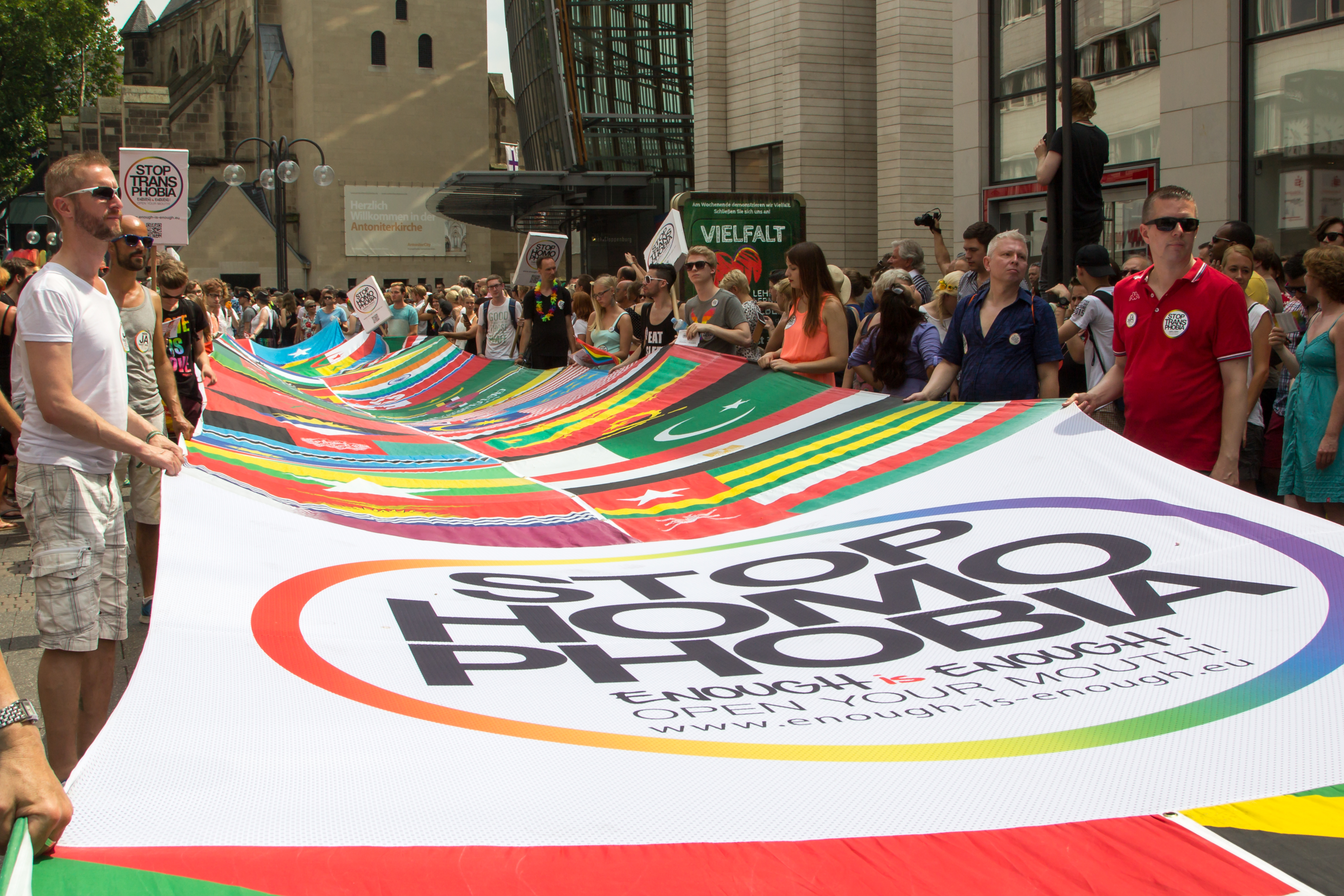 Cologne Pride - Parade on July 5th, 2015